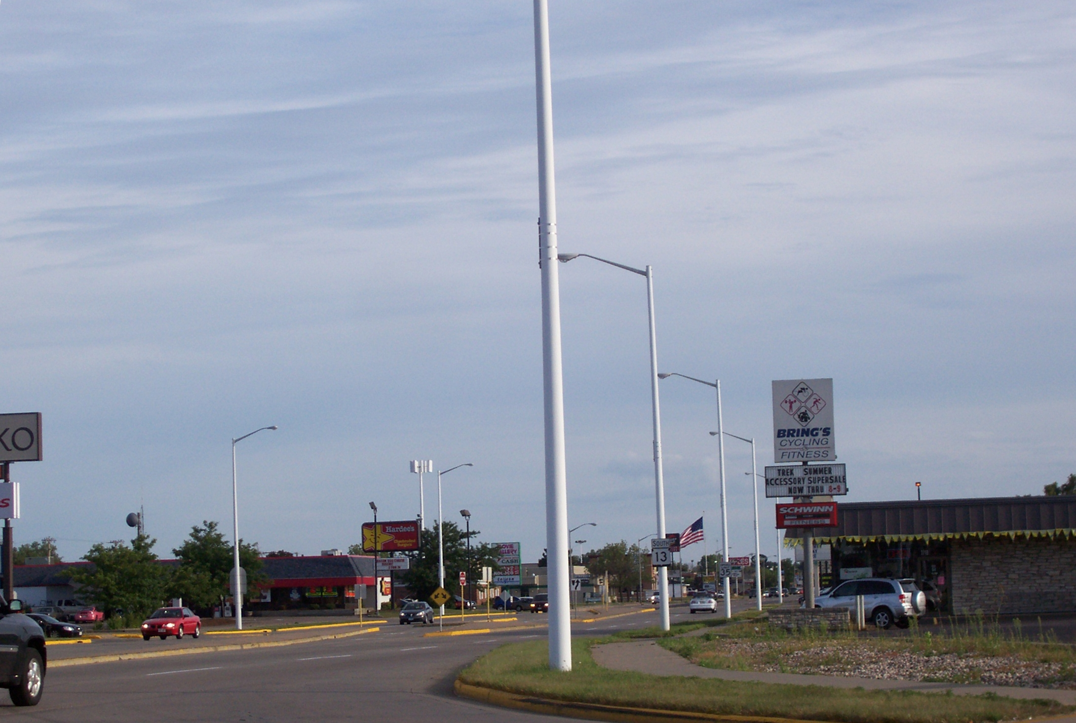 Looking south at Wisconsin Highway 13 in downtown Wisconsin Rapids, Wisconsin from Wisconsin Highway 54.